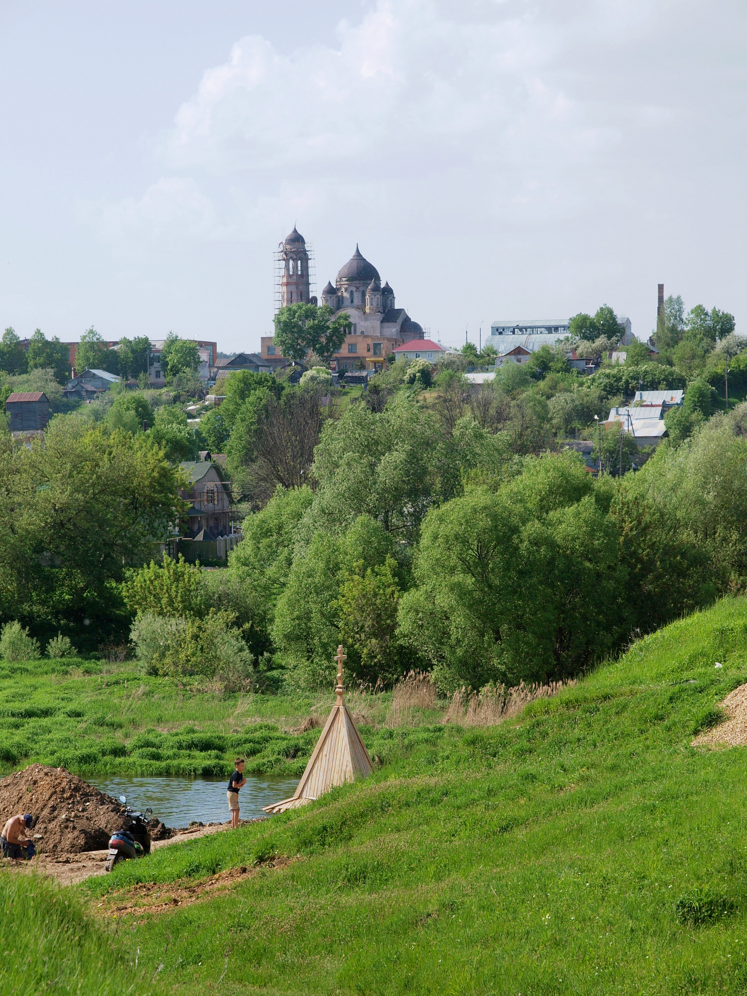 Views of east end of Borovsk and the Old Believers cathedral from across the Protva River. The people in the picture appear like praying (in front of the holy spring, which is covered with a wooden shed), but as far as I remember they were not - it's a coincidence.